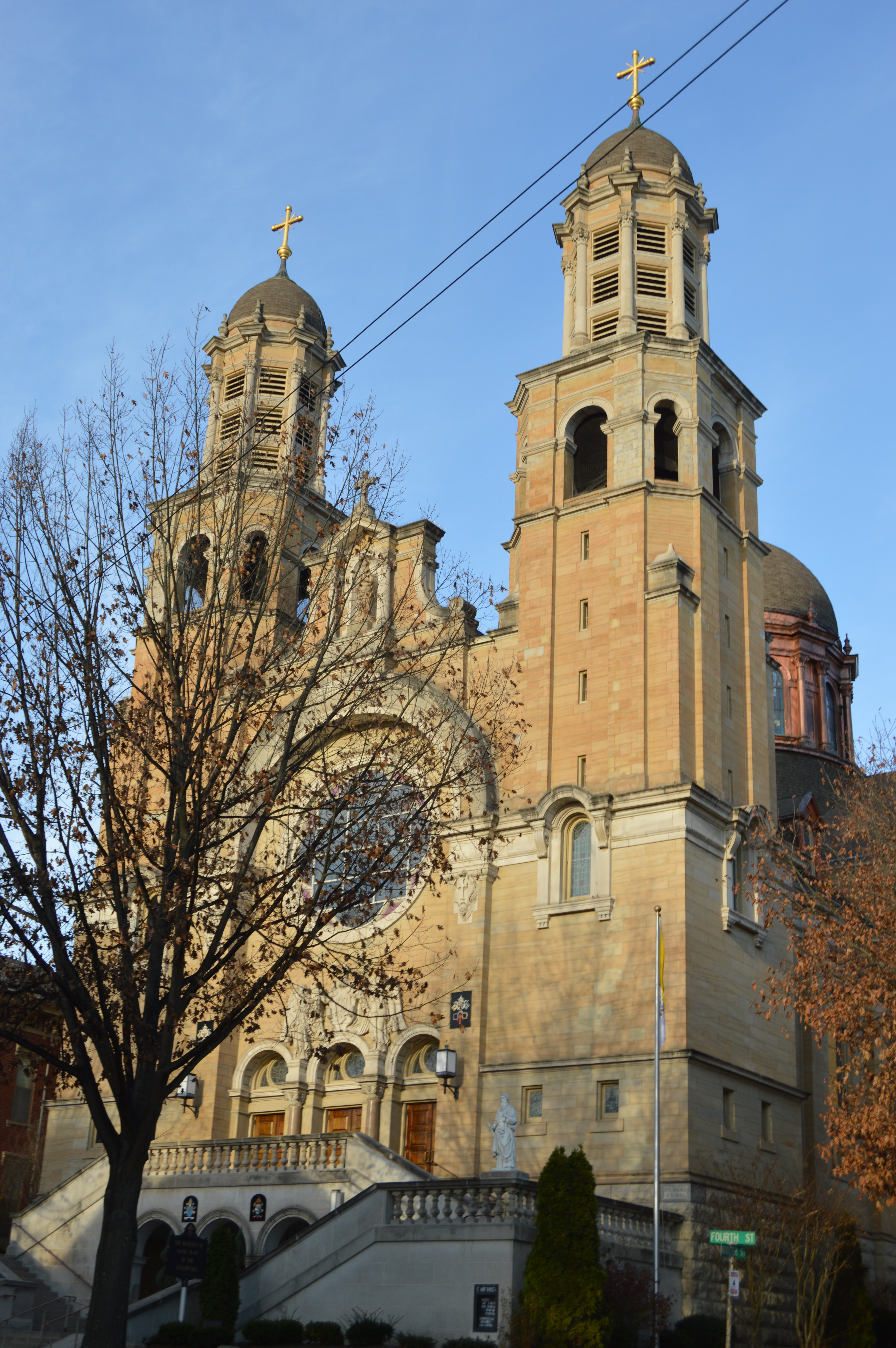 Front of the Basilica of St. Mary of the Assumption, located at 506 Fourth Street in Marietta, Ohio, United States. Built in 1930, it is part of the Marietta Historic District, a historic district that is listed on the National Register of Historic Places.